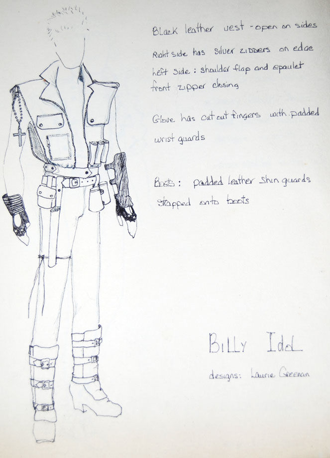 photo of design work by Laurie Greenan